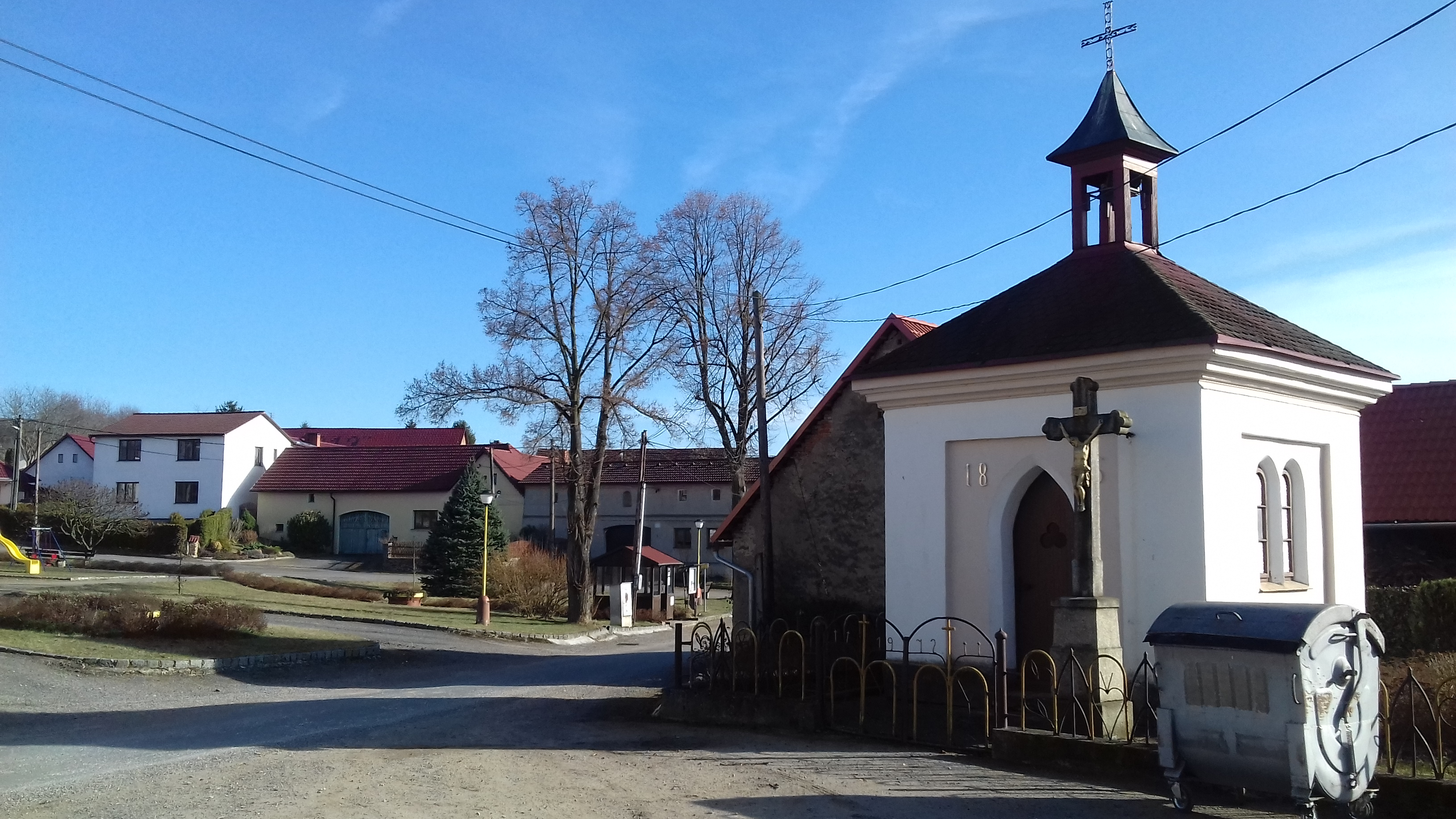 chapel in village Dub, part of Kondrac, in Benešov District